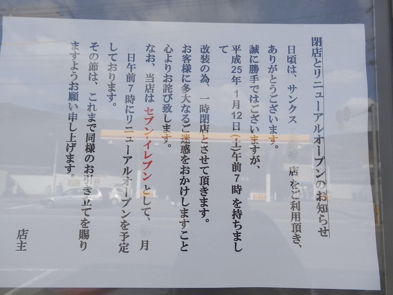 Convenience Store "Sunkus" to "7-Eleven" in Shikoku, Japan